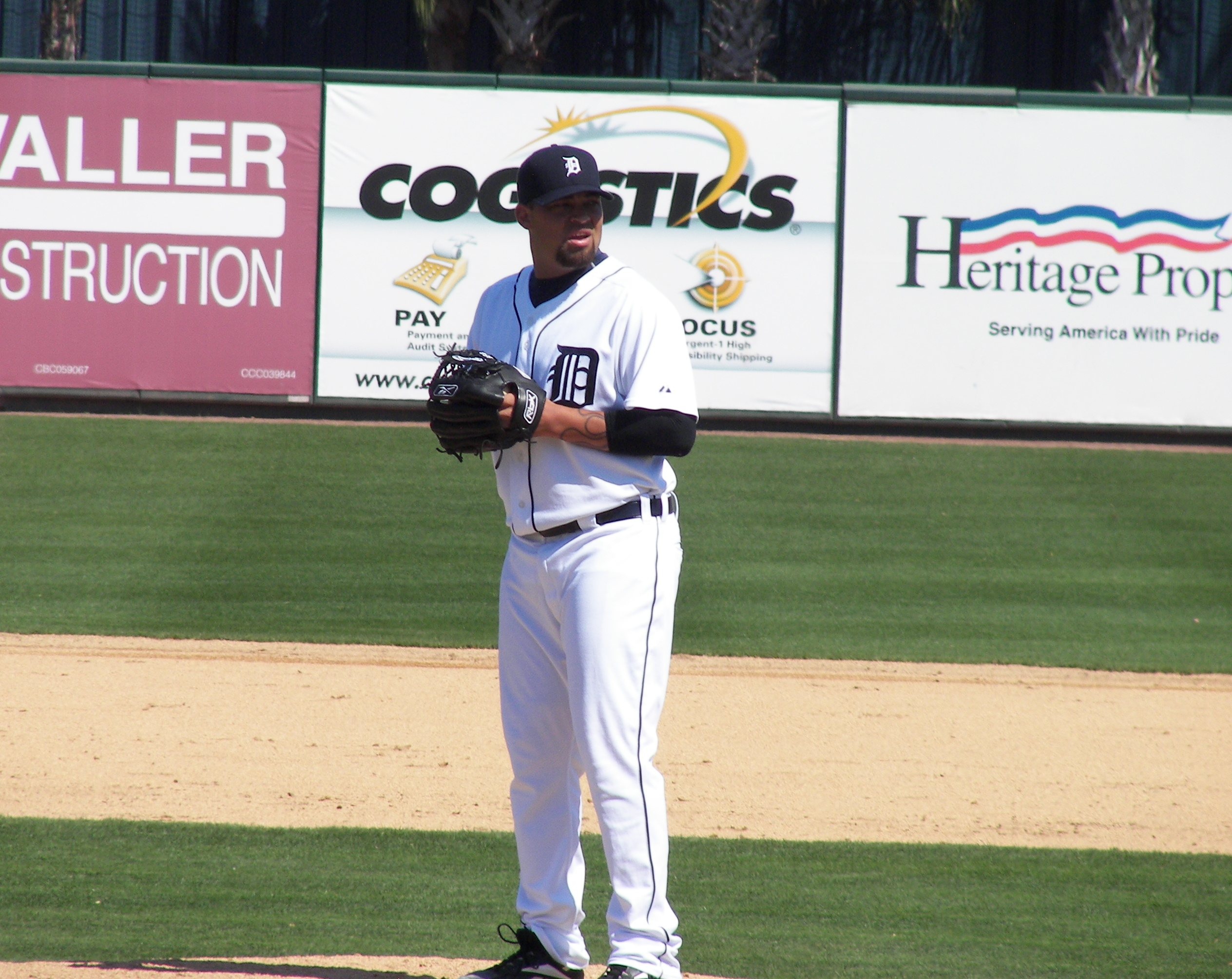 Detroit Tigers relief pitcher Joel Zumaya during a Tigers/New York Mets spring training game at Joker Marchant Stadium in Lakeland, Florida.